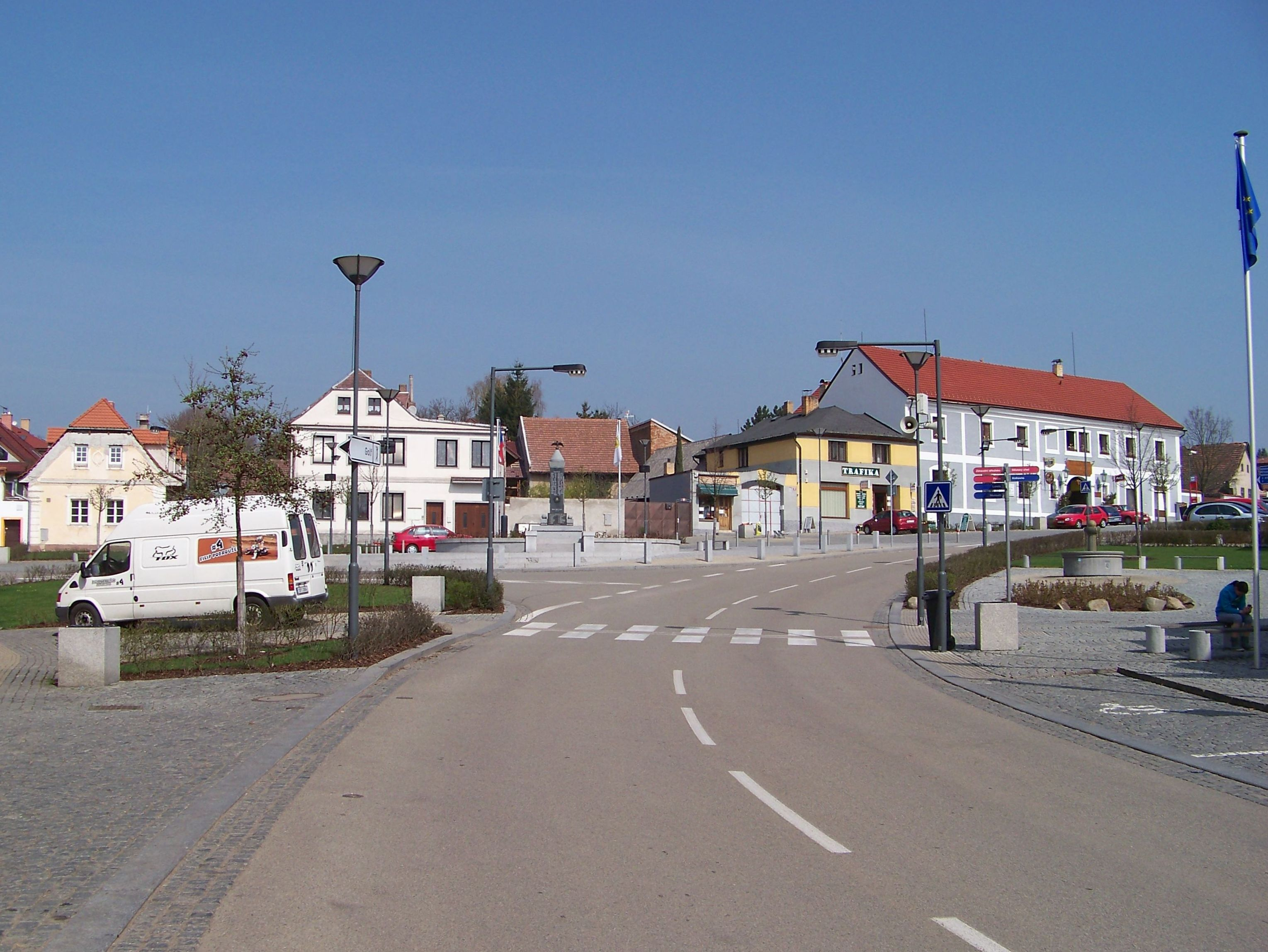 Pyšely, Benešov District, Central Bohemian Region, Czech Republic. Náměstí T. G. Masaryka 32, 31, 30, 197, 29, 28.